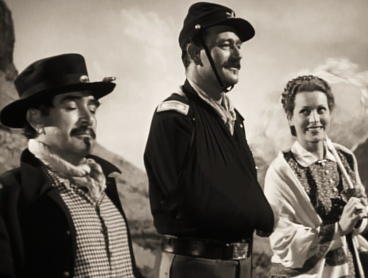 L. to R. : J. Carrol Naish, John Wayne & Maureen O'Hara in Rio Grande - trailer (cropped screenshot)